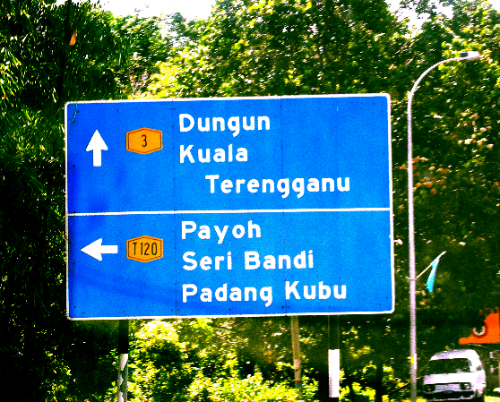 A direction signboard on Federal Route 3 in Terengganu, Malaysia. Pic taken with Nikon Coolpix P2, touched up slightly with Microsoft Photo Editor (to reduce glare from windscreen).